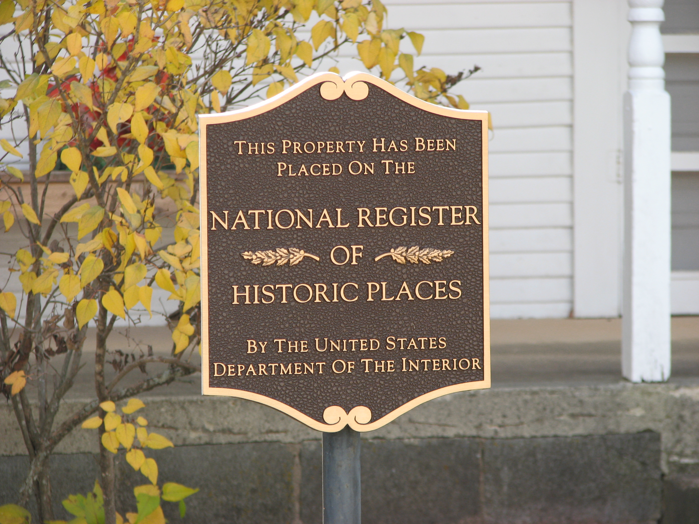 National Register of Historic Places plaque outside the Robert E. Howard Museum.